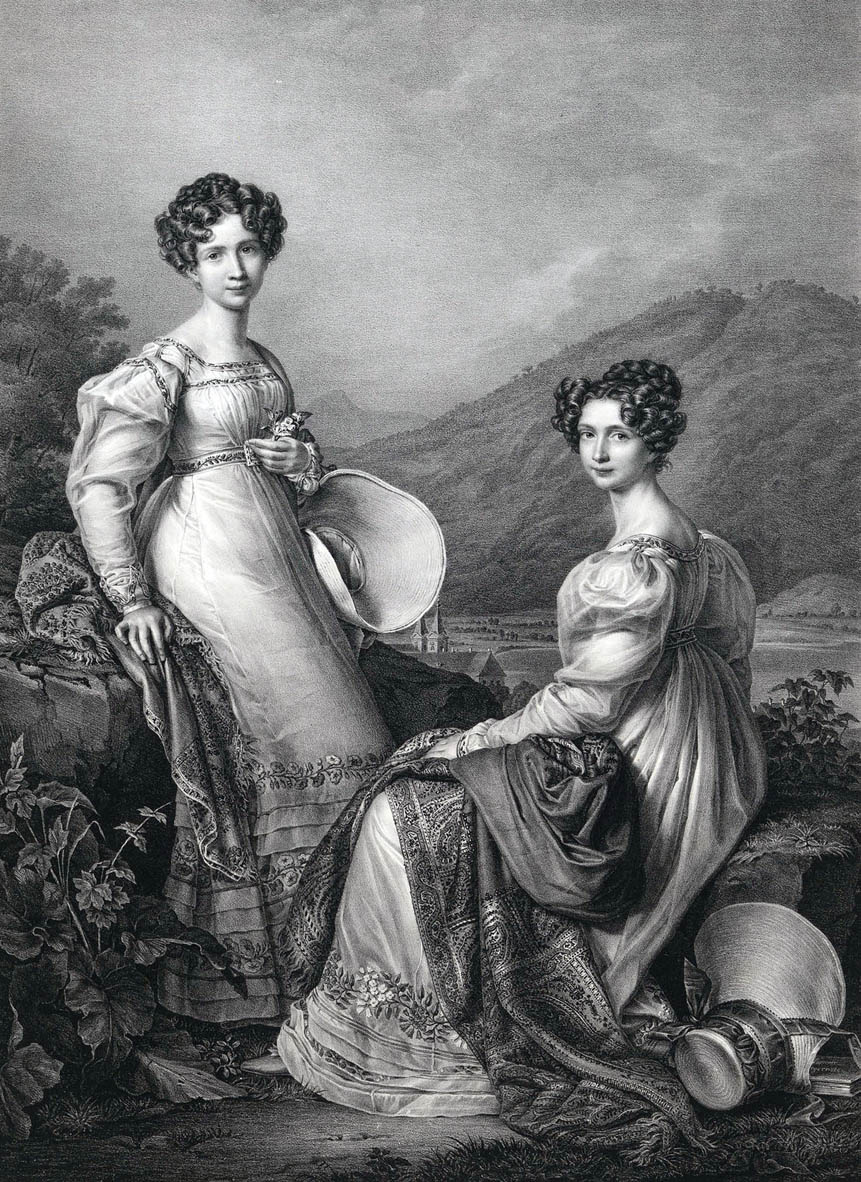 Maria Anna, Queen of Saxony with her twin sister Sophie, Archduchess of Austria